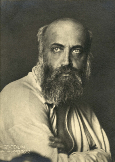 Gustaf Fröding